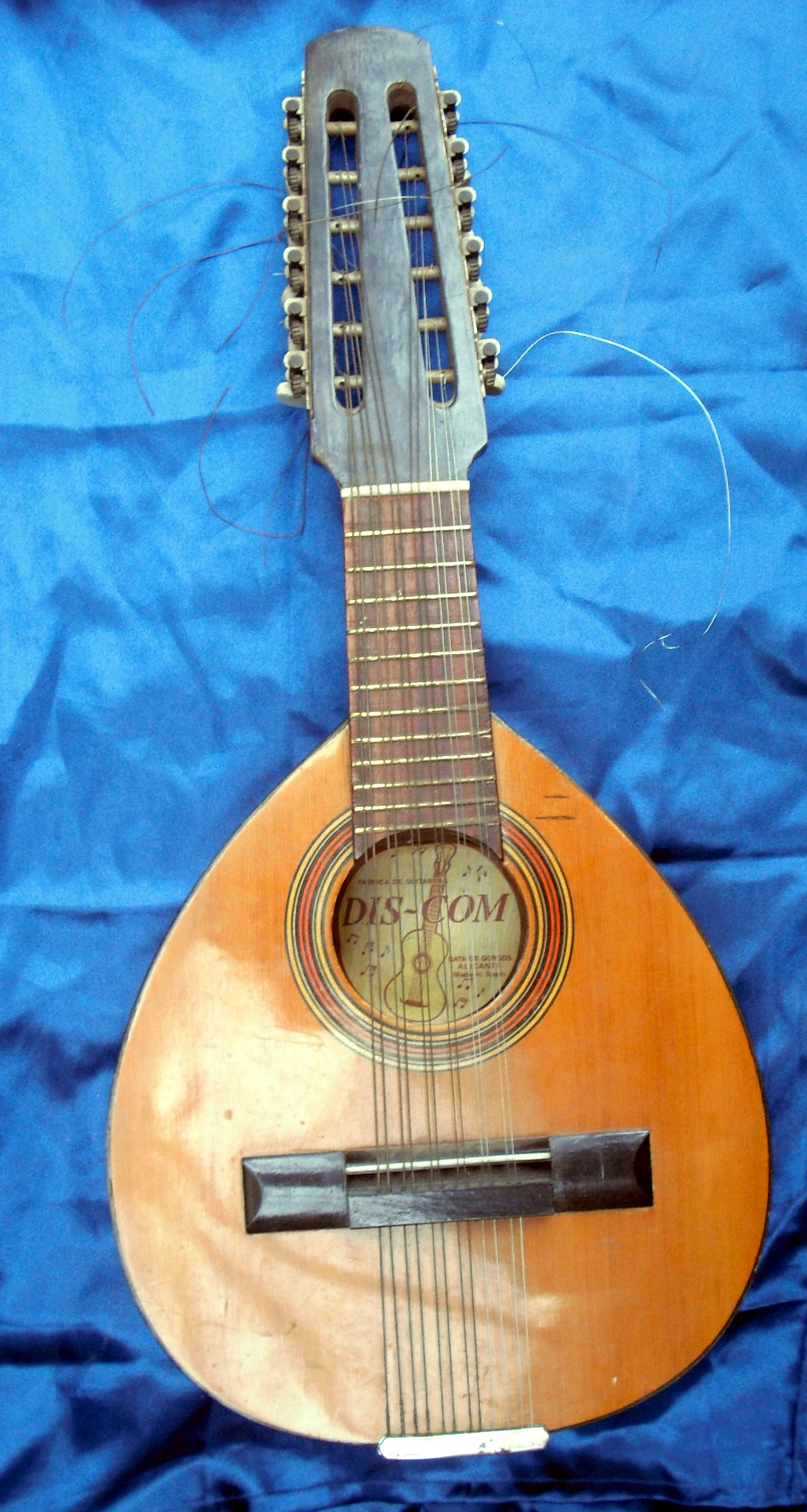 Bandurria.